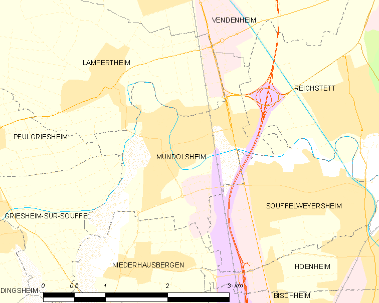 Map of French municipality